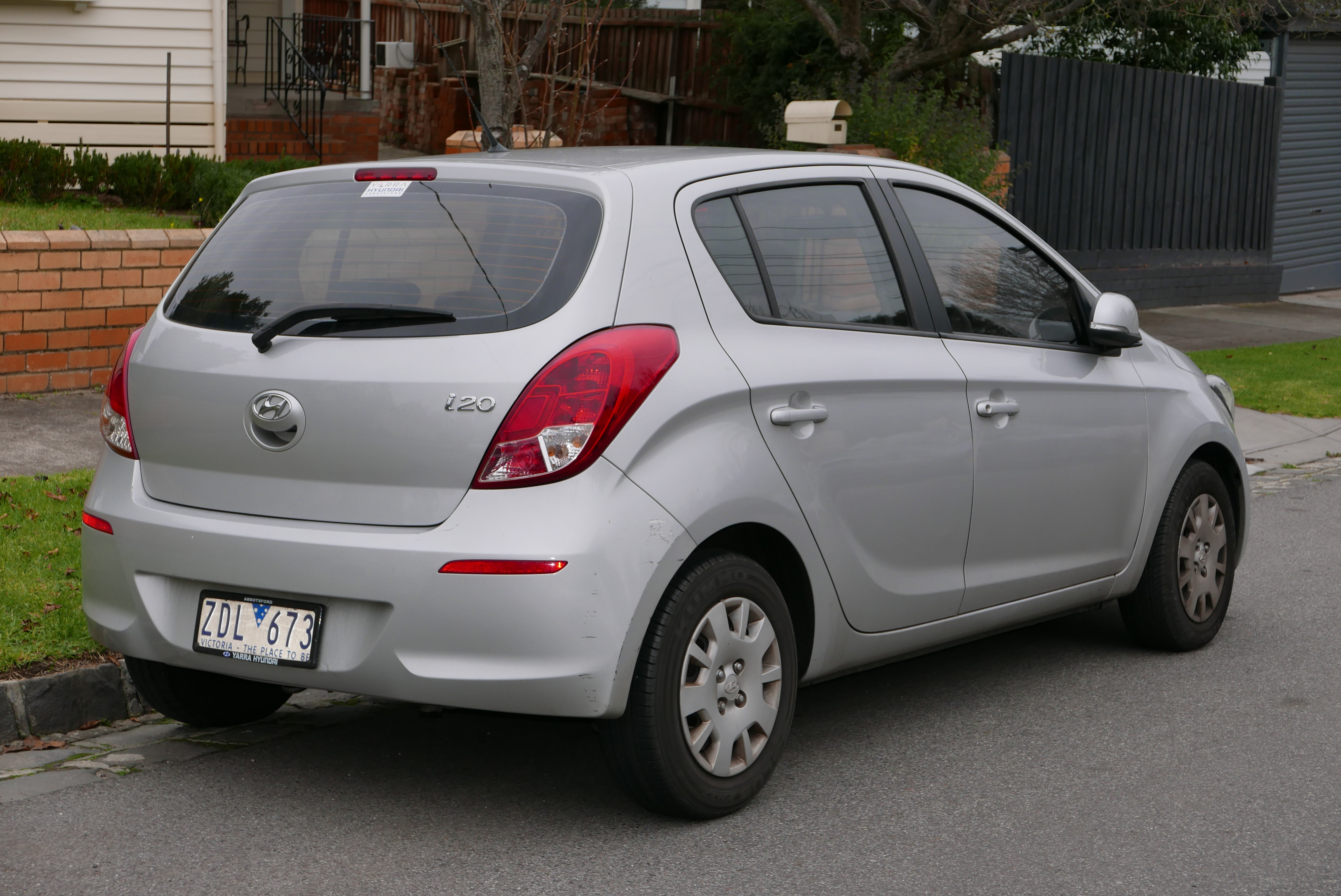 2012 Hyundai i20 (PB MY13) Active 5-door hatchback. Photographed in Kew, Victoria, Australia. Vehicle registration enquiry resultsJurisdictionVictoriaRegistrationZDL673Chassis codeMALBB51CMDM414876Engine codeG4FACU108345Compliance date2012-06Year of manufacture2012